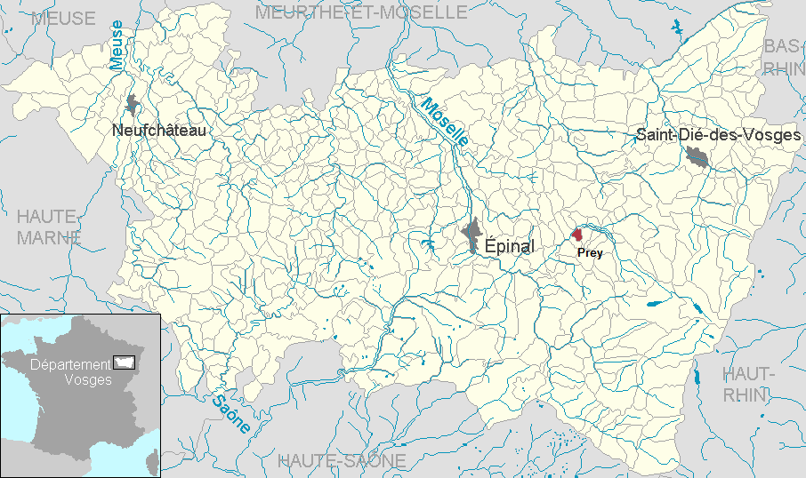 Prey in the department of Vosges, Lorraine, France